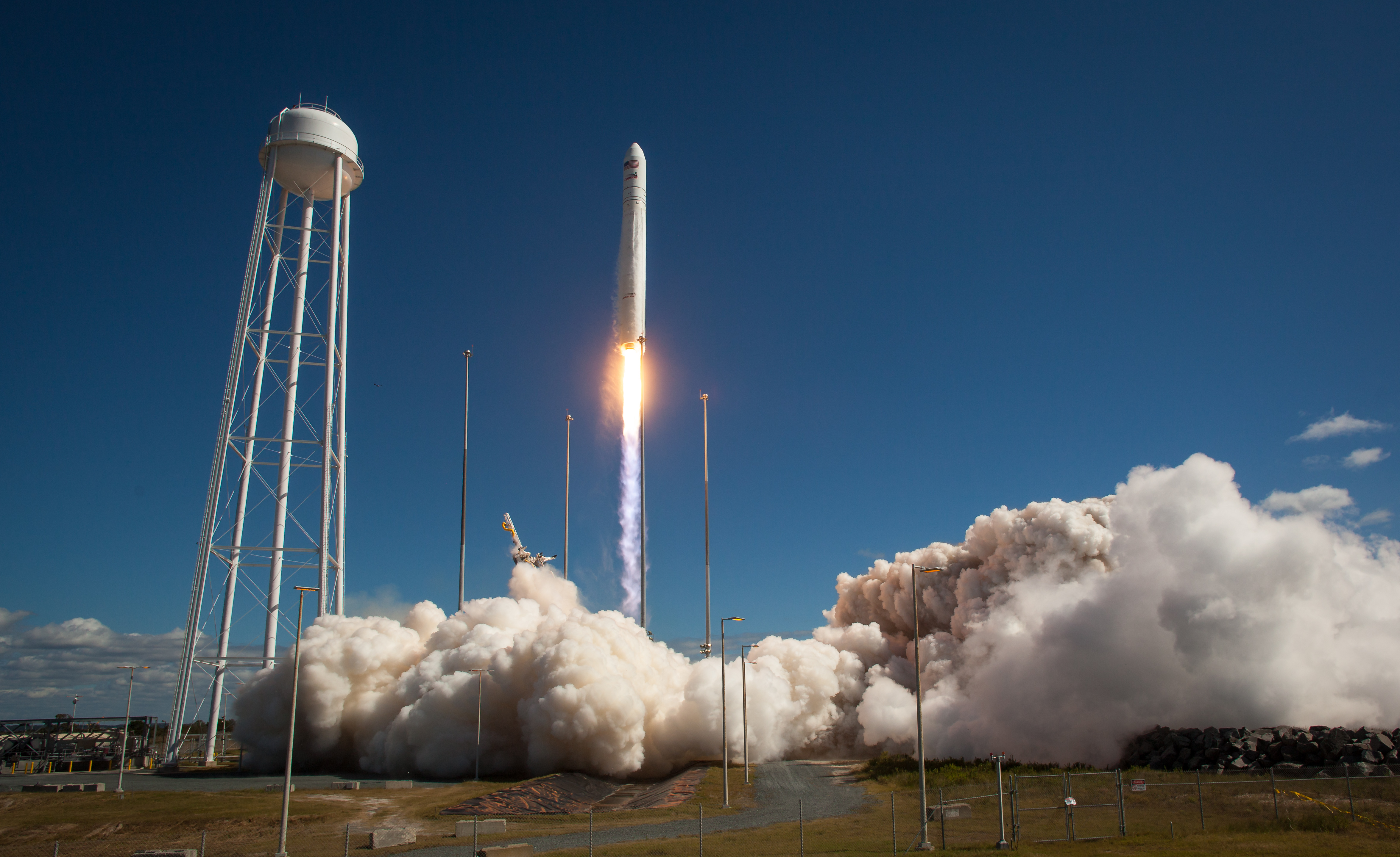 The Orbital Sciences Corporation Antares rocket, with the Cygnus cargo spacecraft aboard, is seen as it launches from Pad-0A of the Mid-Atlantic Regional Spaceport (MARS), Wednesday, Sept. 18, 2013, NASA Wallops Flight Facility, Virginia. Cygnus is on its way to rendezvous with the space station. The spacecraft will deliver about 1,300 pounds (589 kilograms) of cargo, including food and clothing, to the Expedition 37 crew.